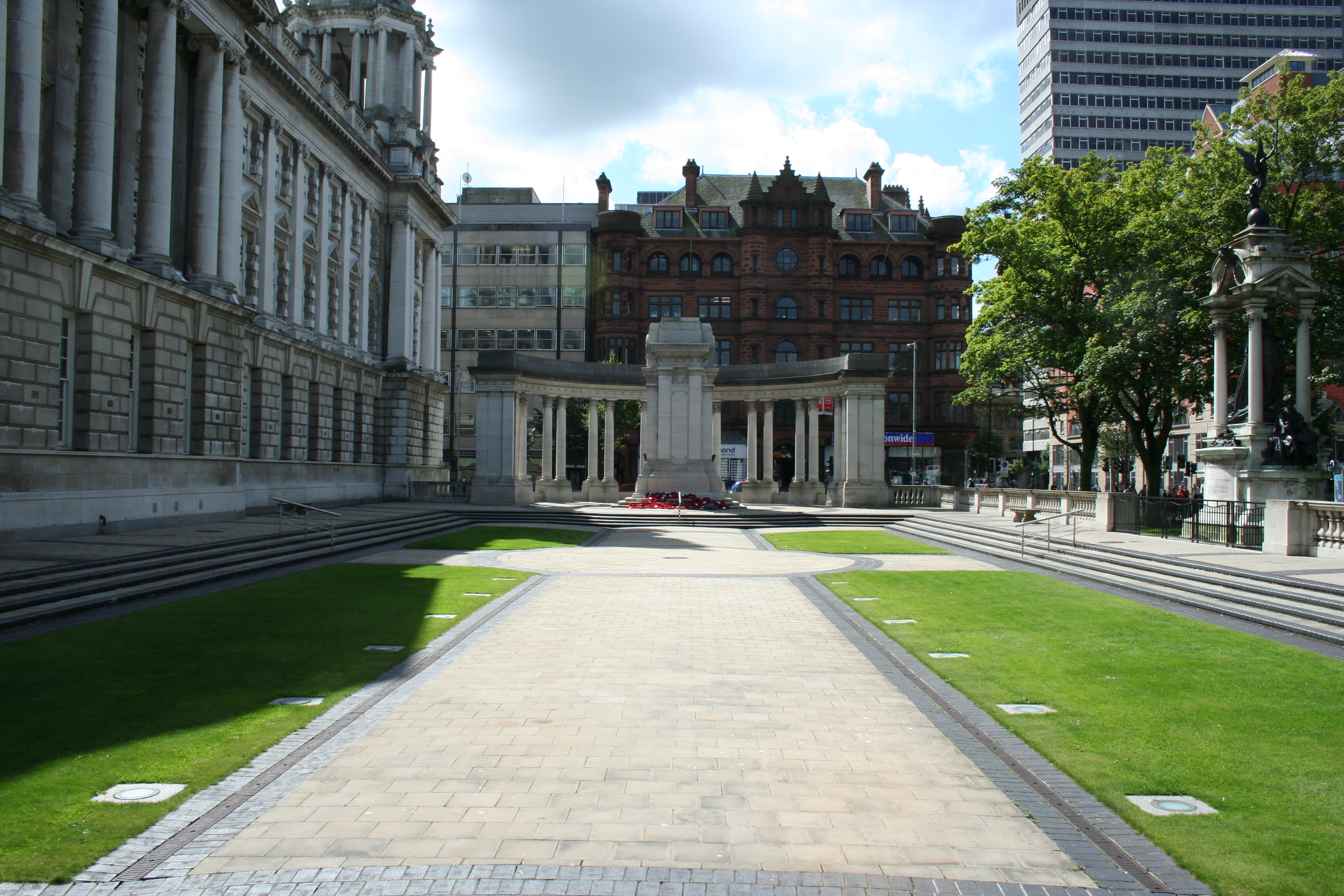 Garden of Remembrance and Cenotaph in the grounds of Belfast City Hall Credit: A Peter Clarke image